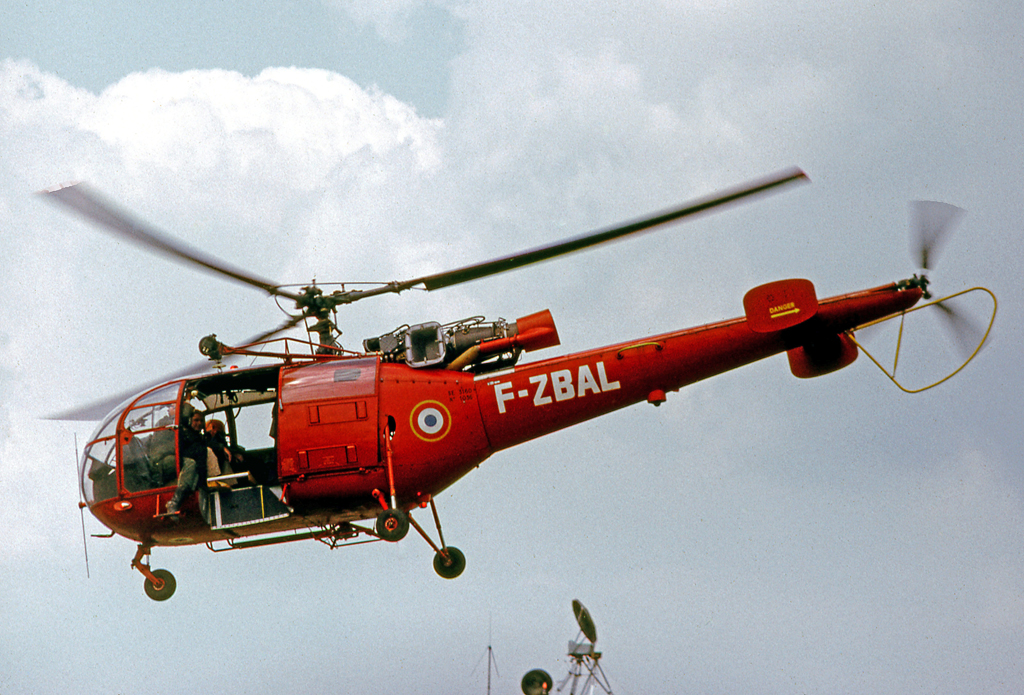 Sud SE3160 Alouette III F-ZABAL of the Protection Civile at Paris Le Bourget Airport in 1973